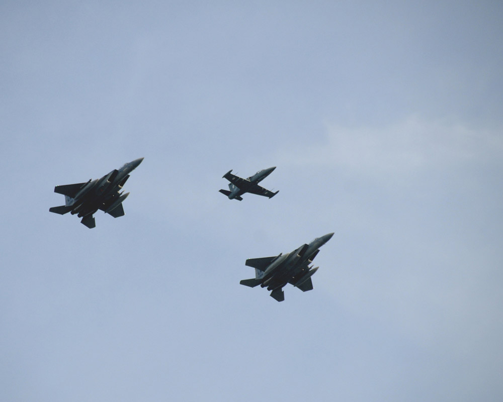 Two F-15 Eagles soar with a Lithuanian air force L-39 Albatross during an exercise intercept Nov. 11 over Siauliai, Lithuania. The F-15s are supporting the NATO Baltic air policing mission. (U.S. Air Force photo)